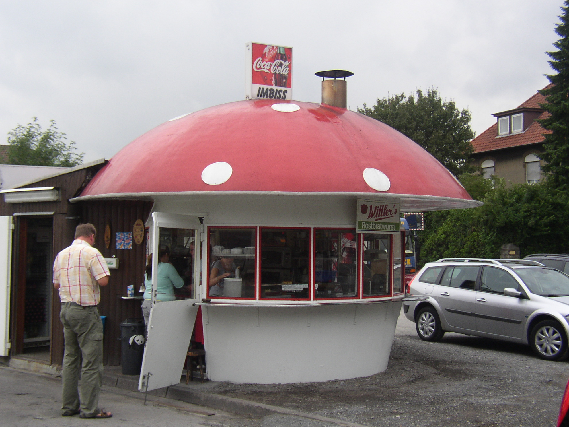 “milk mushroom” in Borgholzhausen-Bahnhof, County of Gütersloh, Germany